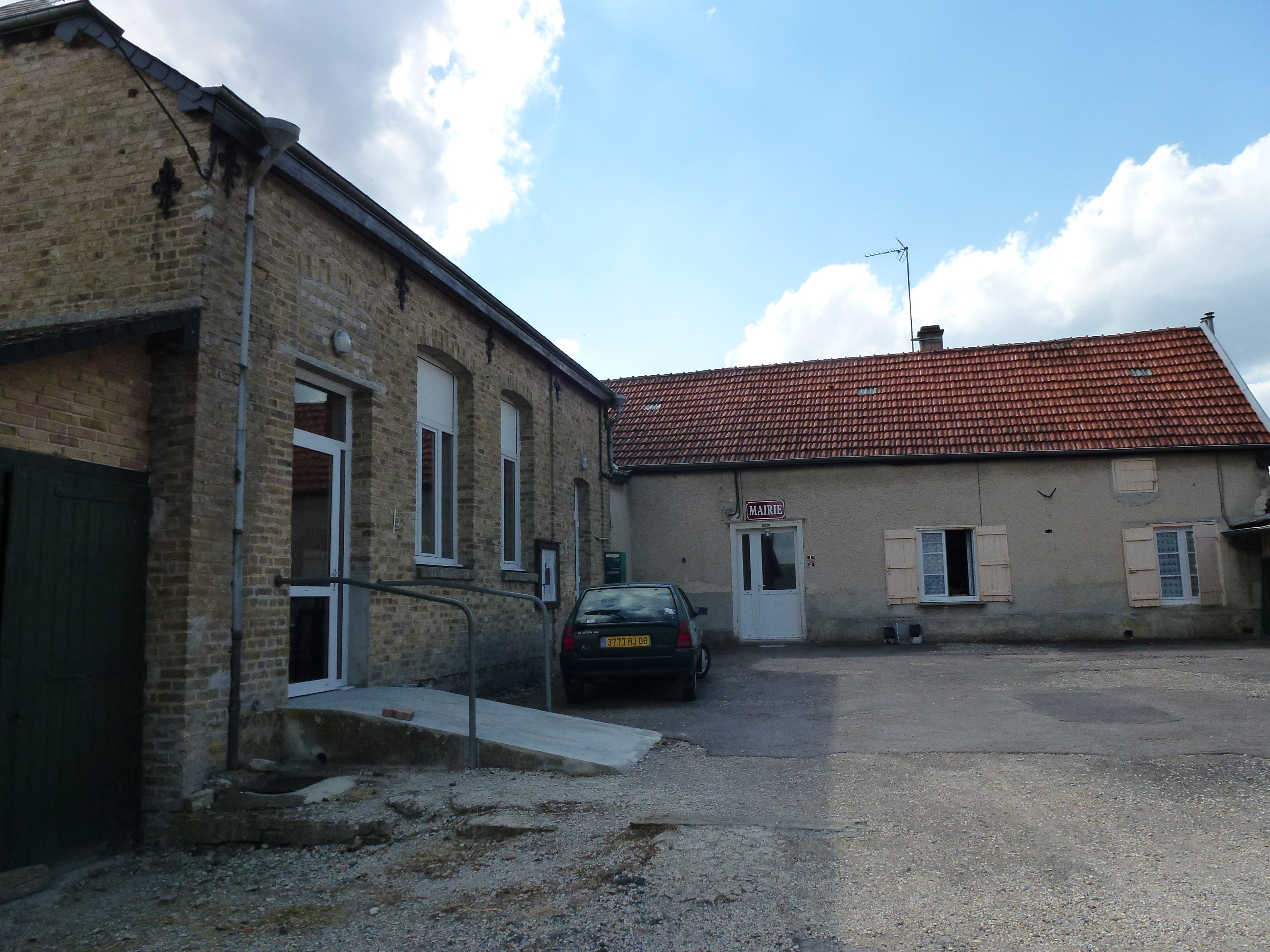 Auboncourt-Vauzelles (Ardennes) mairie